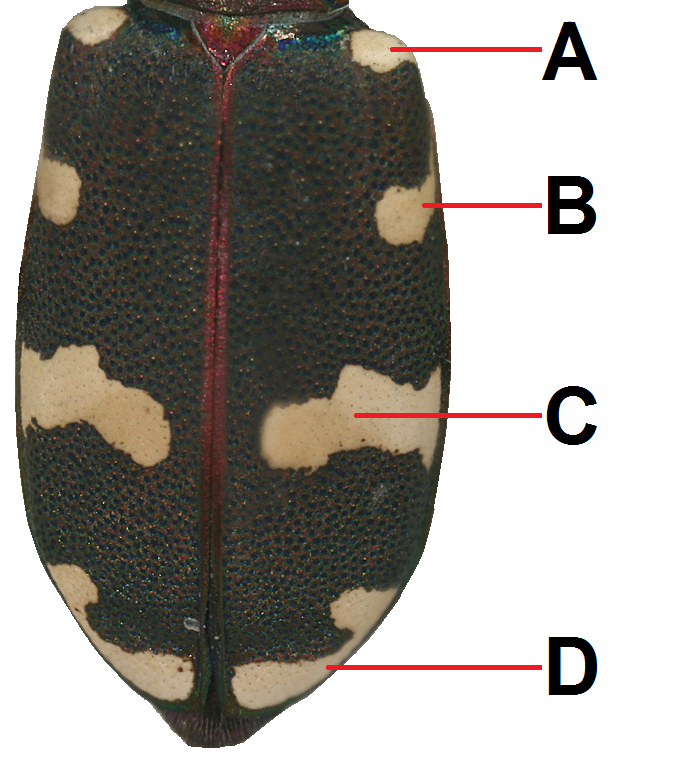 Description: The tiger beetles are a large group of beetles known for their predatory habits. As shown a Sandlaufkäfer 'Cicindela hybrida'